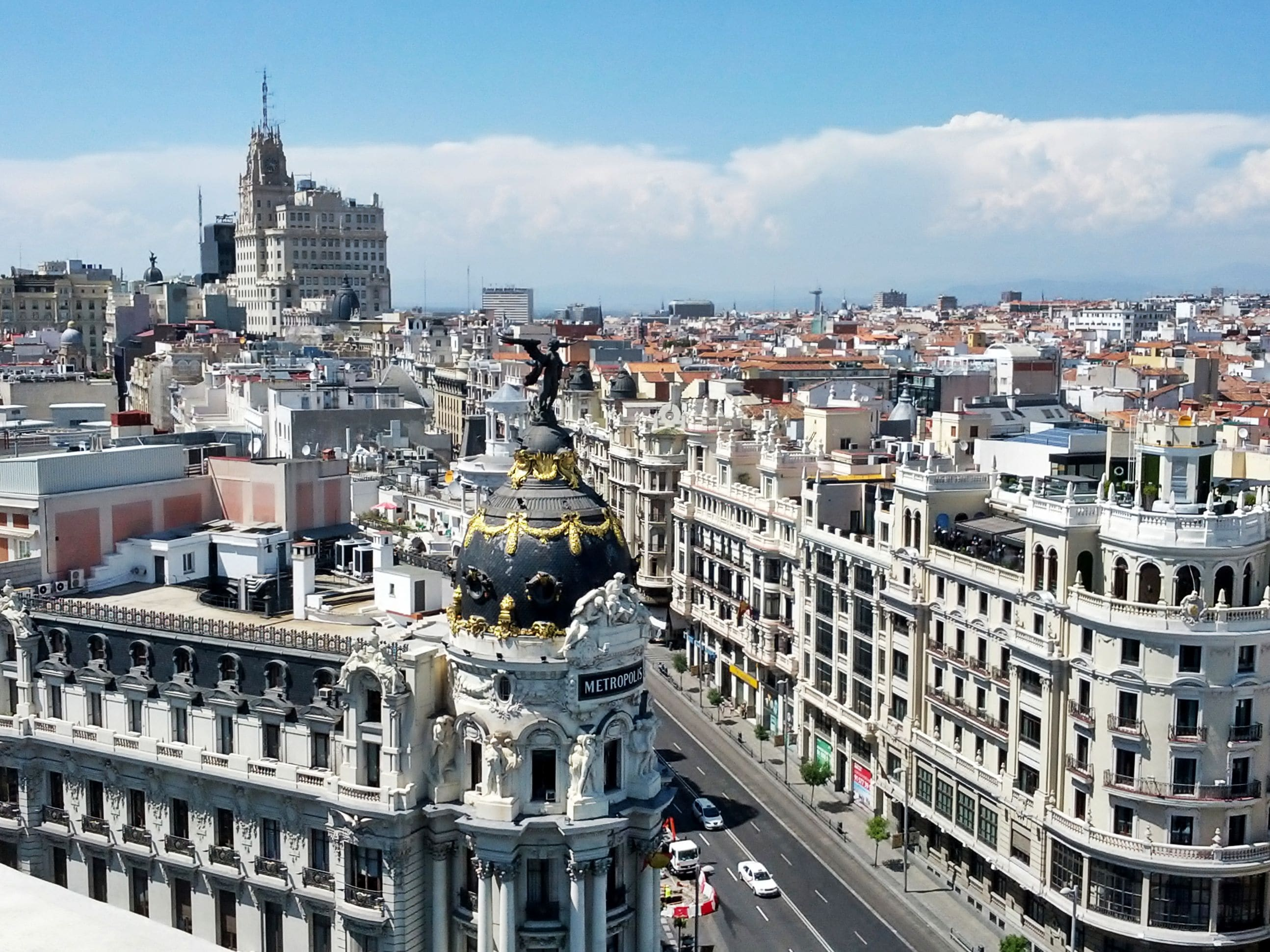 Madrid Cityscape, Spain